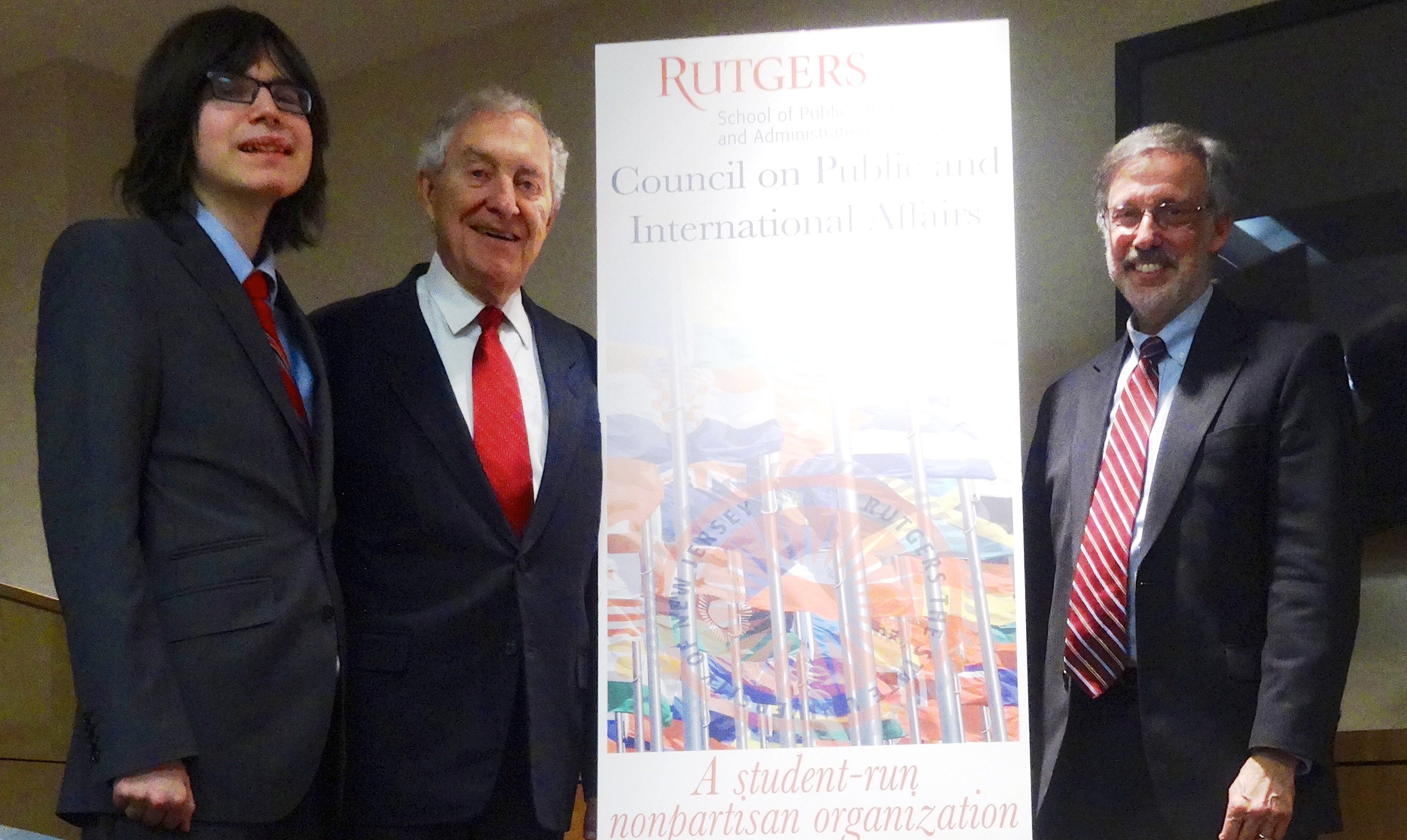 Rutgers School of Public Affairs and Administration Dean and Rutgers Council on Public and International Affairs (CPIA) Board of Advisors Chair Marc Holzer, former U.S. Senator, Ambassador, and Congressman Robert Krueger, and Rutgers CPIA President Edmund Janniger at the Inaugural Distinguished Lecture of the Rutgers CPIA